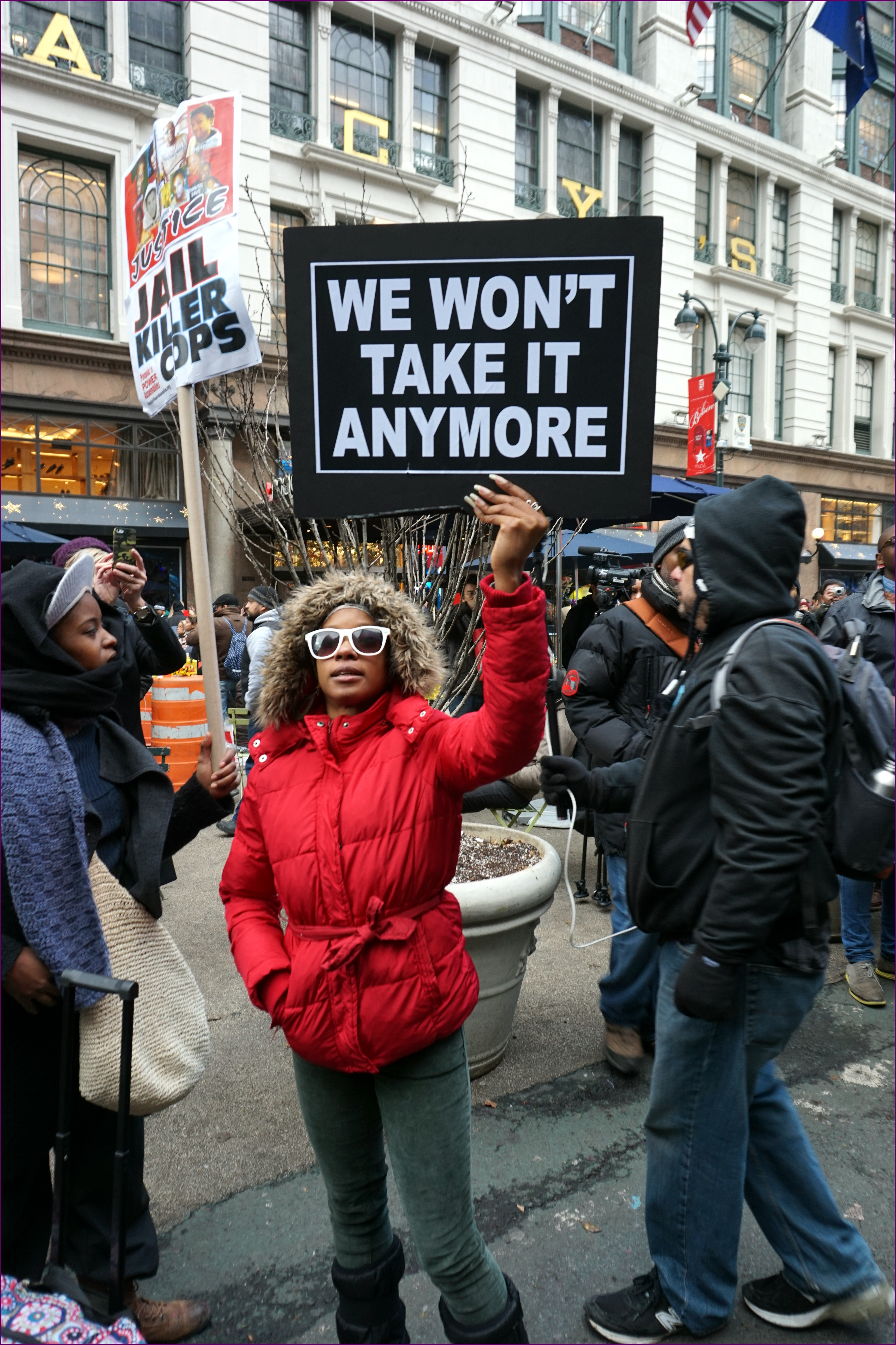 NYC action in solidarity with Ferguson. Mo, encouraging a boycott of Black Friday Consumerism.